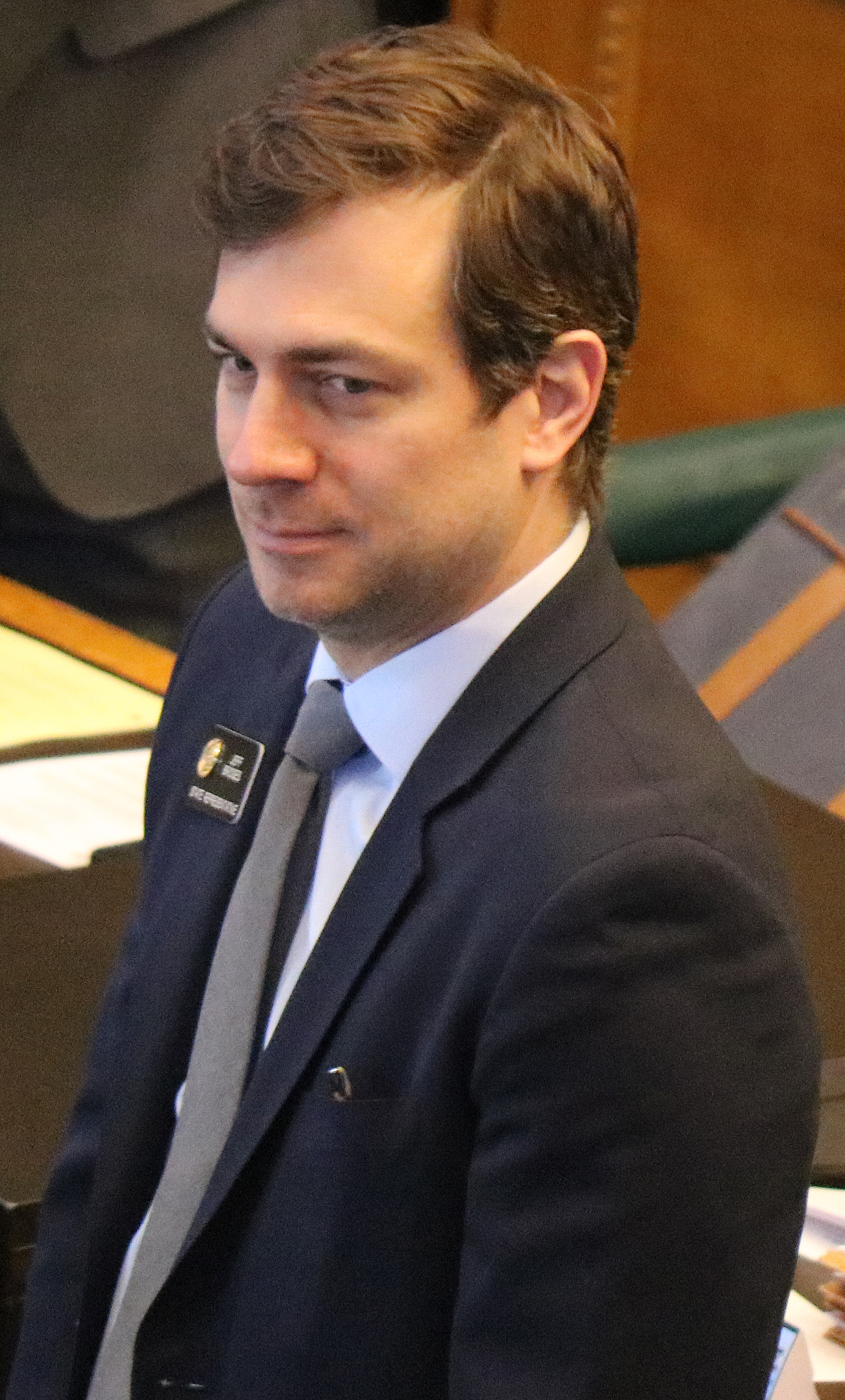 Jeff Bridges, a politician from Colorado.